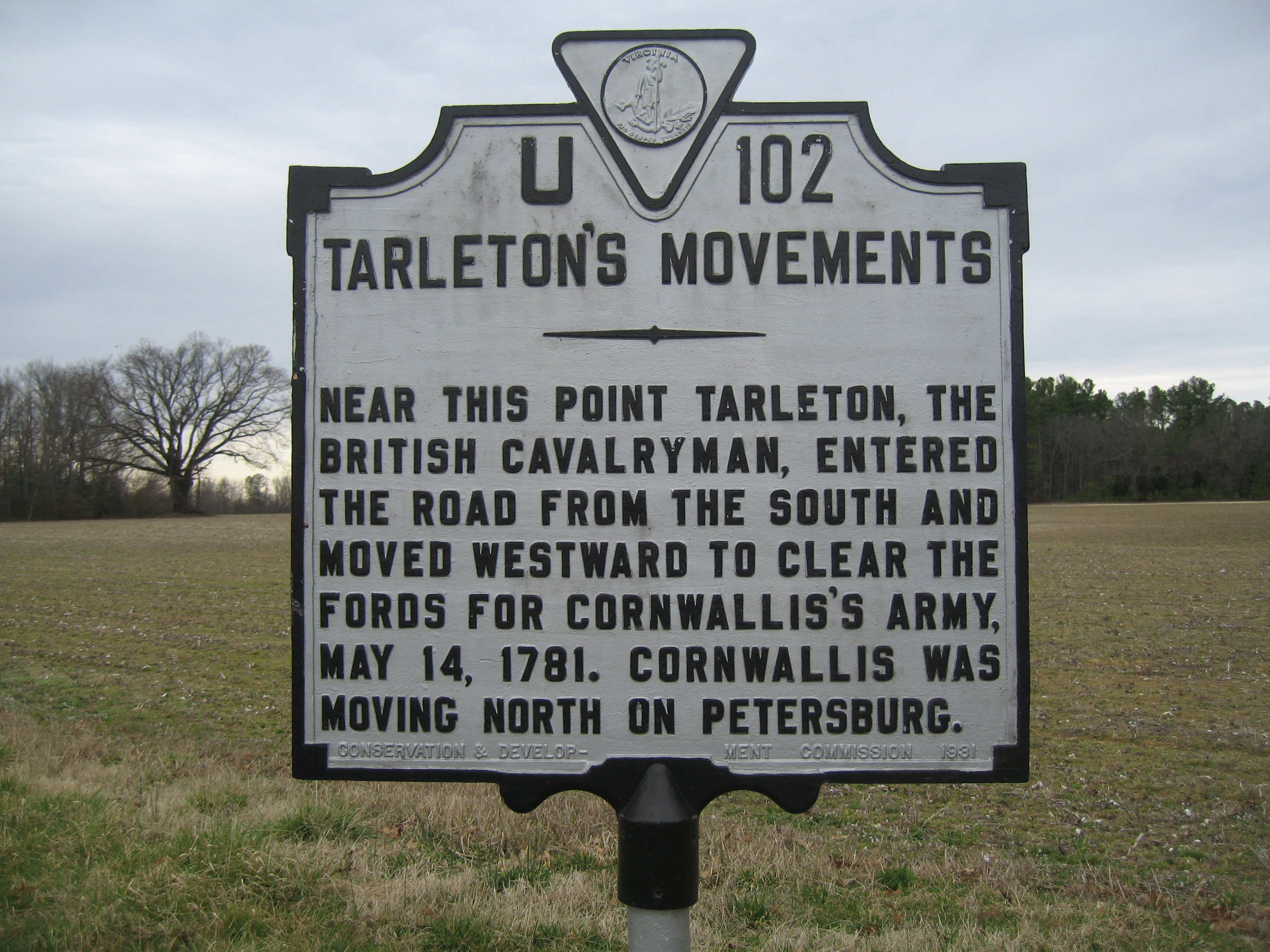 Tarleton's Movements historical marker on Southampton Parkway (U.S. Route 58) near intersection with Adams Grove Road (Route 615) in Adams Grove, Virginia.